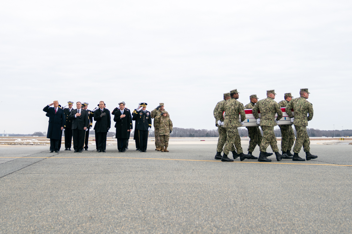 President Donald J. Trump, joined by Secretary of State Mike Pompeo and acting Secretary of Defense Patrick Shanahan, attends the dignified transfer of remains Saturday, January 19, 2019, at Dover Air Force Base in Dover, Delaware, for four Americans killed in a suicide explosion Wednesday in Syria. (Official White House Photo by Shealah Craighead)